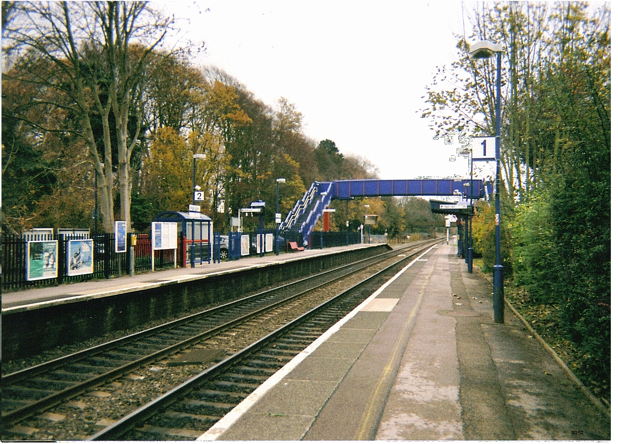 I took this picture of King' Sutton station my self and release it for use in the public domain. The picture is date stamped.